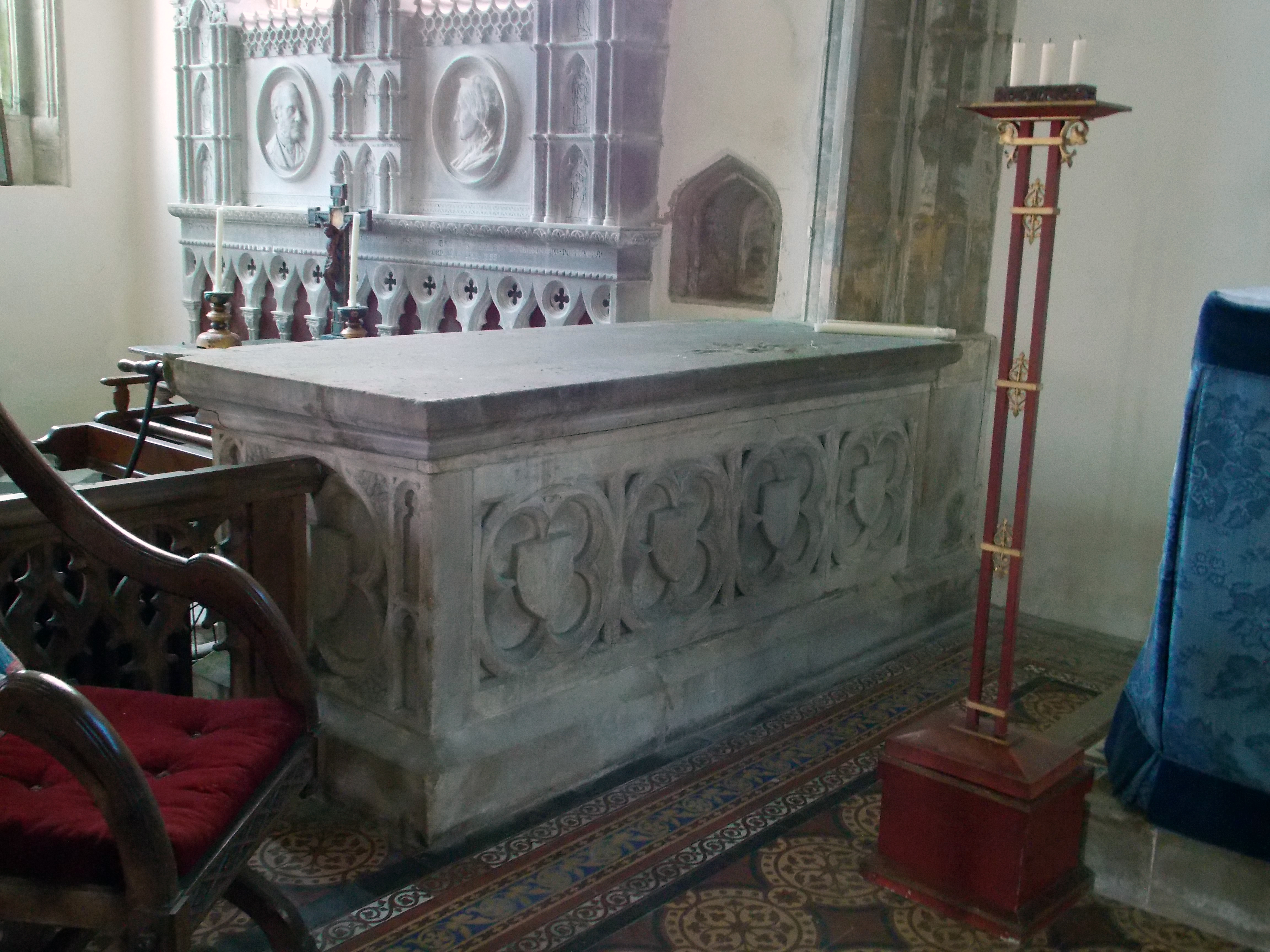 Stoke Rochford Ss Andrew & Mary, interior - chancel altar tomb of unknown origin